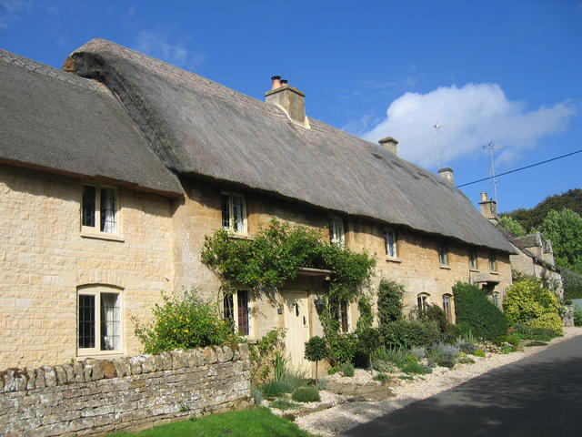 33 and 35 Taynton, Oxfordshire: a pair of thatched 18th-century cottages opposite Manor Farm. 35 in the foreground has a modern extension in a traditional Cotswold style.